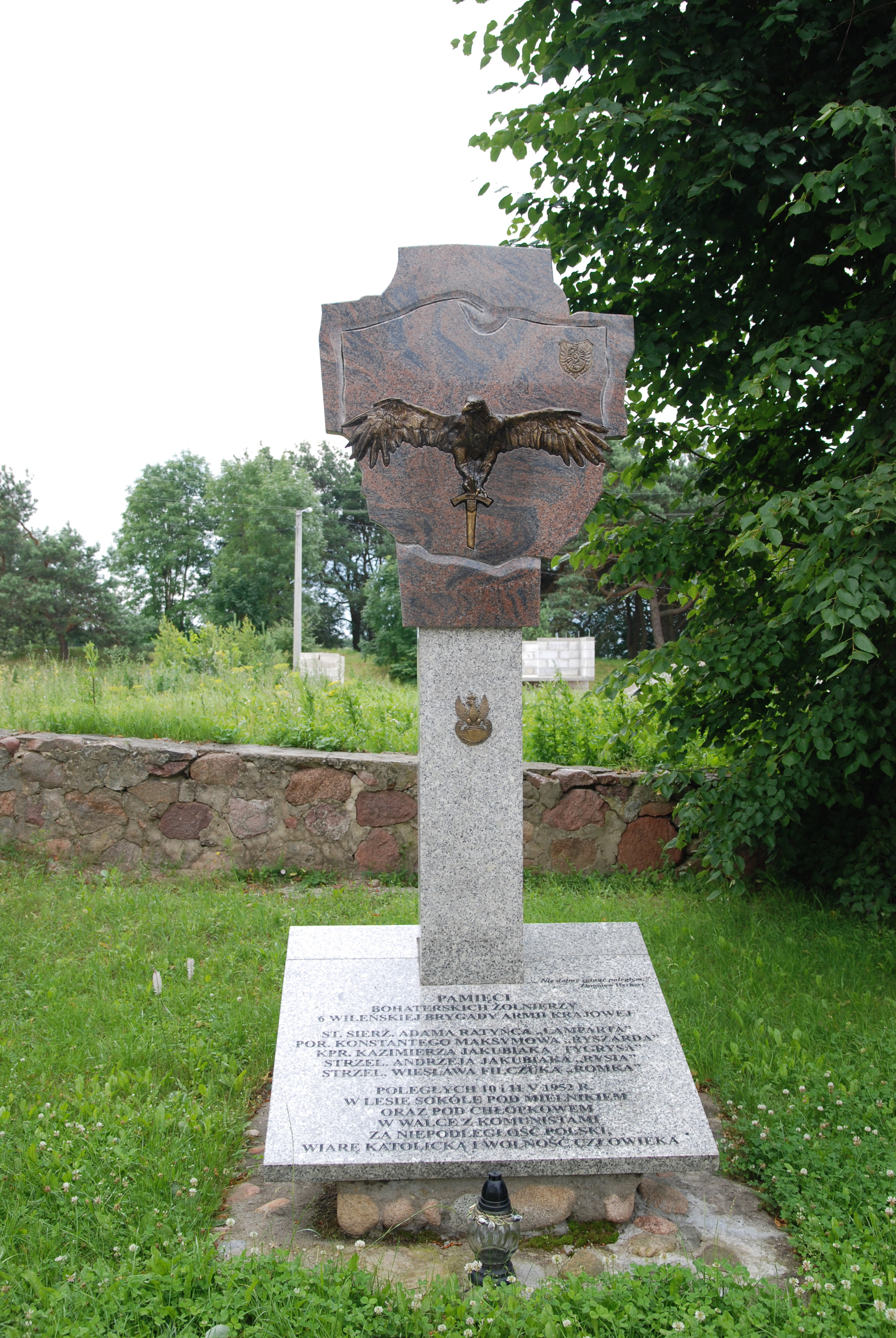 This photo from Podlaskie Voievodeship was taken during Polish Wikiexpedition 2009 set up by Wikimedia Polska Association. The making of this document was supported by Wikimedia Polska. Pomnik pamieci bohaterskiej 6 wielenskiej brygady AK